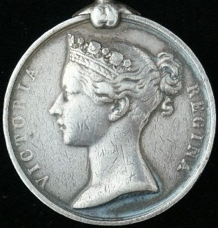 India General Service Medal 1854 obverse